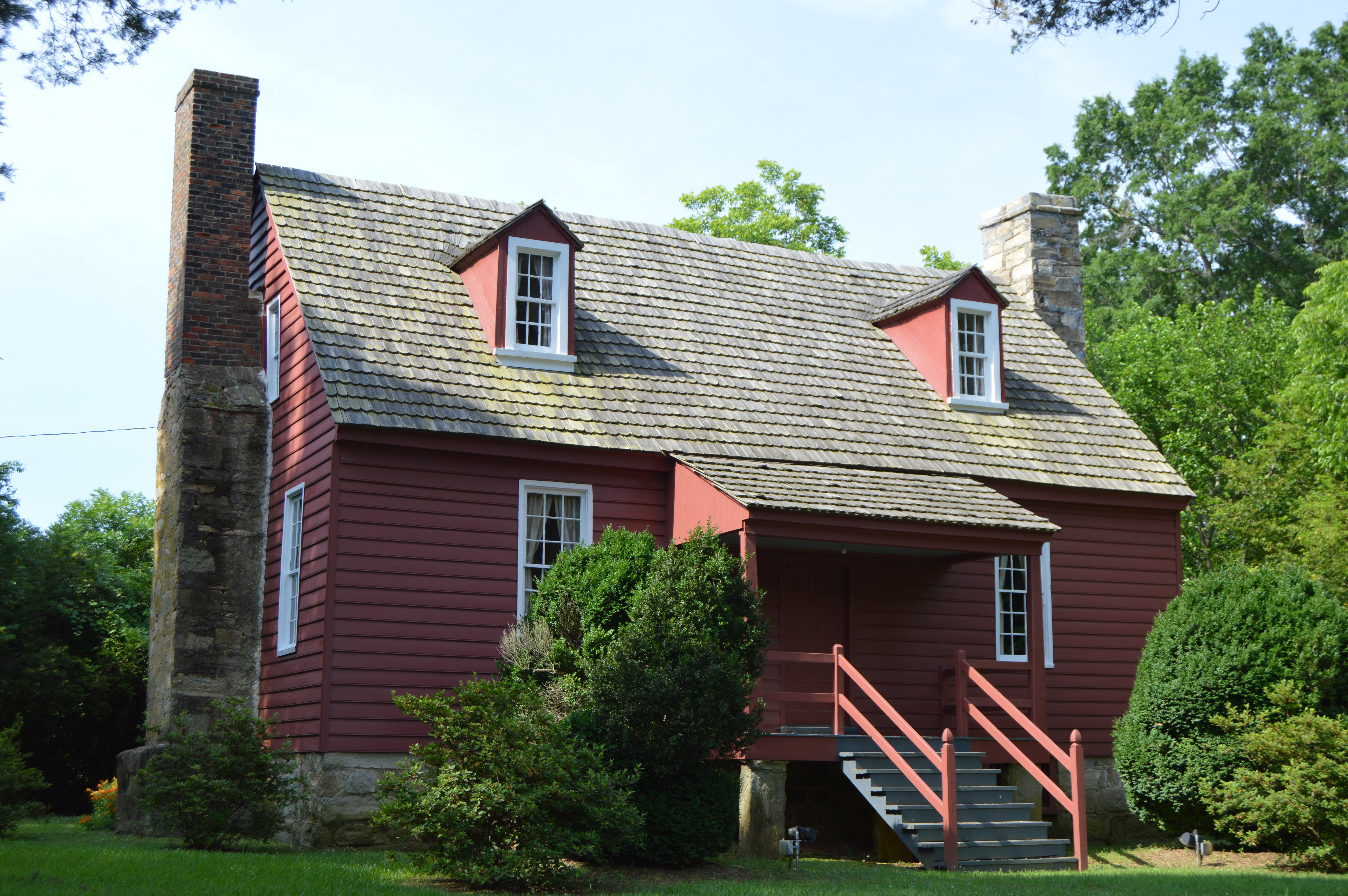 Front and eastern side of Person's Ordinary, a former inn located on Warren Street near Ferguson Street in Littleton, North Carolina, United States. Named for early owner Thomas Person, it is listed on the National Register of Historic Places.